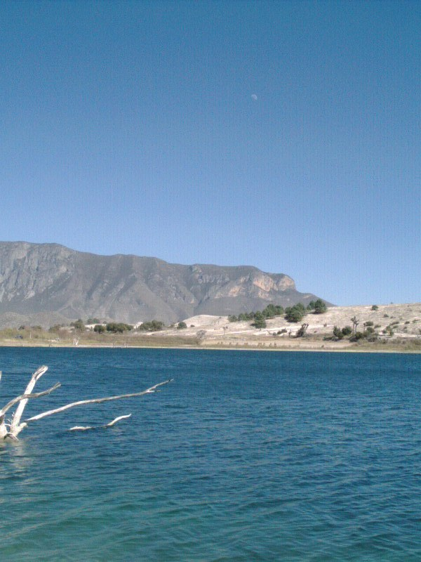 Laguna de Labradores (Lake Labradores) in Galeana, Nuevo León, Mexico.